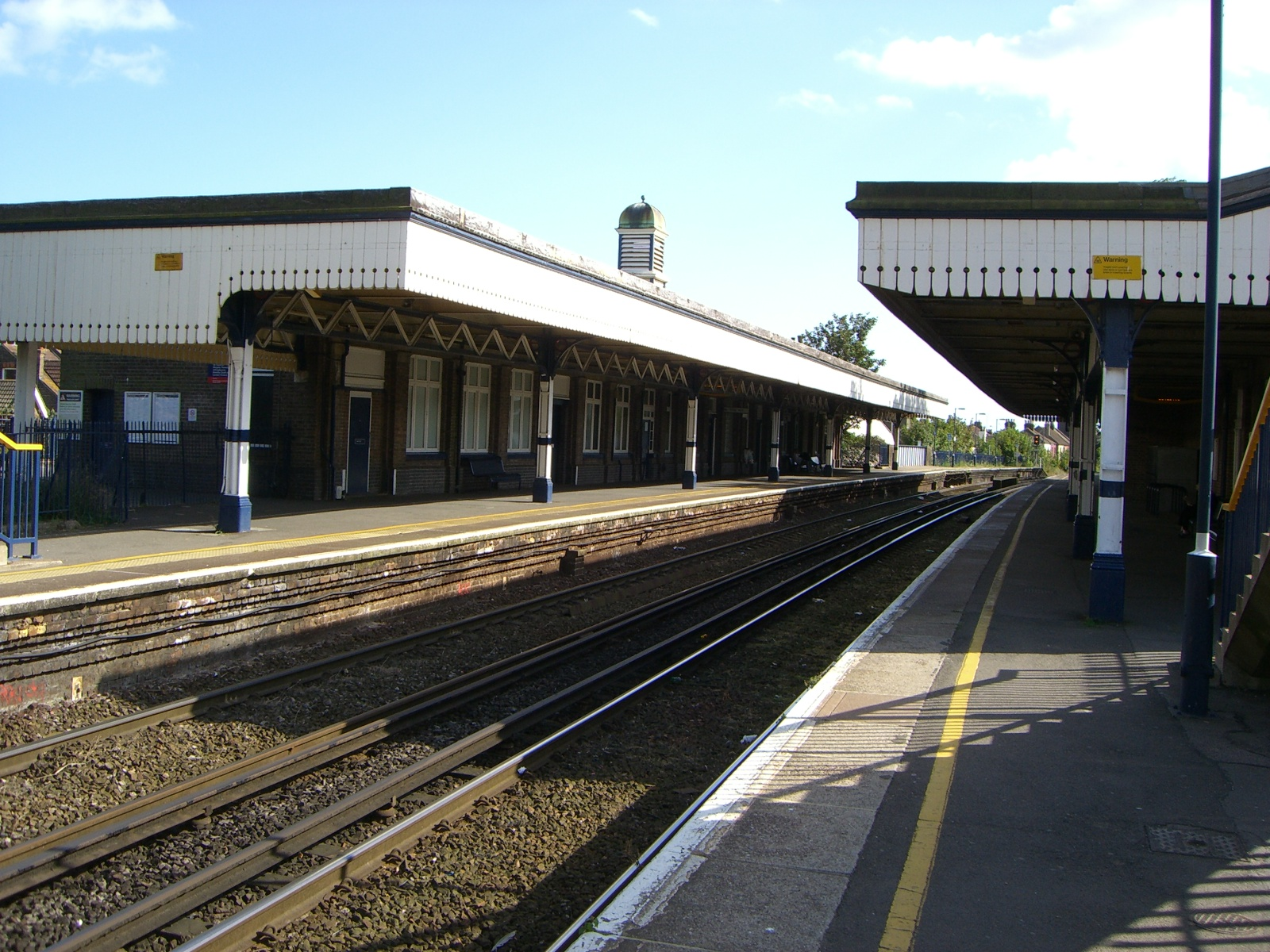 View of Broadstairs Railway Station as viewed from Under the footbridge on Platform 1, viewed towards the Ramsgate Direction.